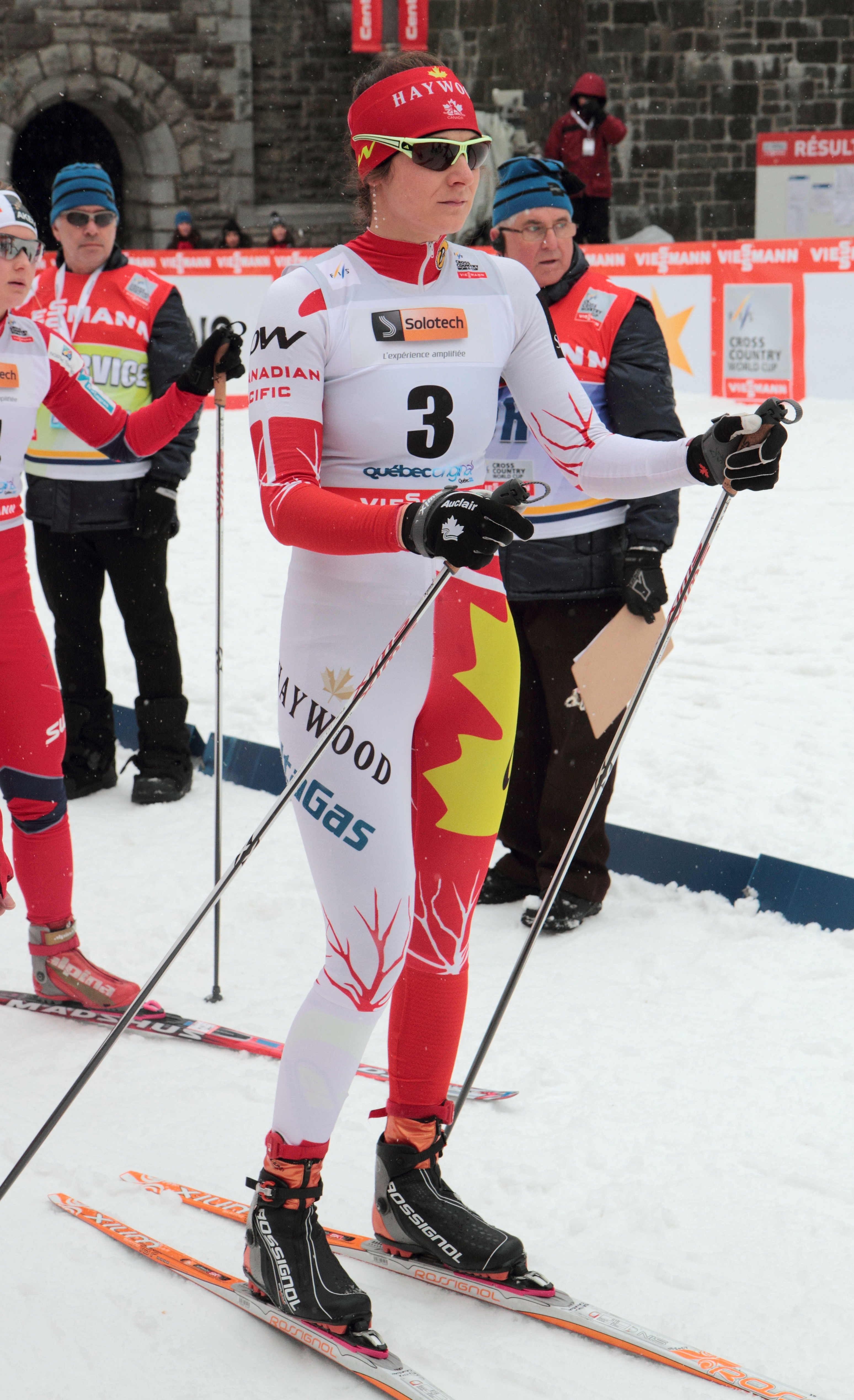 Daria Gaiazova, FIS Cross-Country World Cup 2012, Quebec, Canada